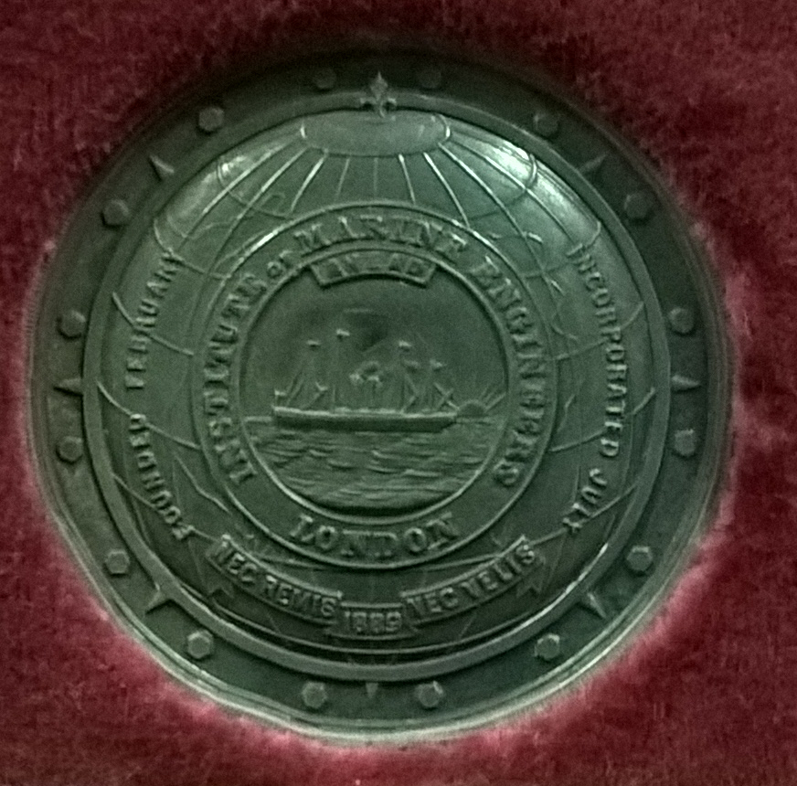 Institute of Marine Engineers Silver Medal (tarnished) awarded to Sir Robert Hadfield 1928 for the development of heat-resisting and non-corroding steels.